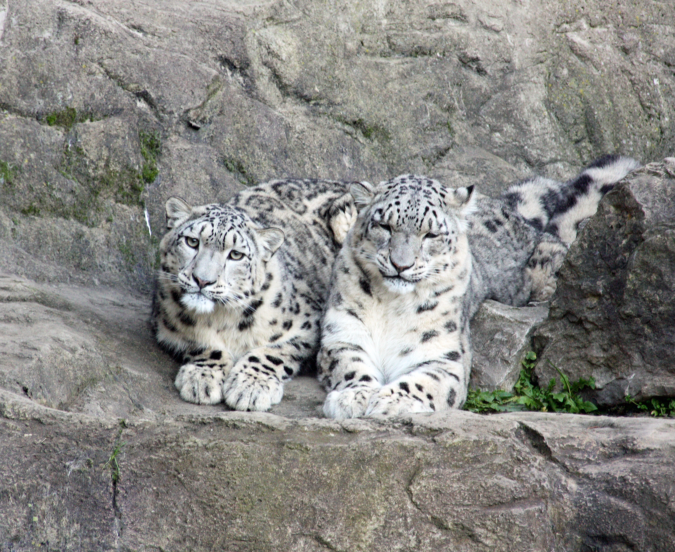 Snow leopards Kailash (daughter) and Dshamilja (mother), Zurich Zoo